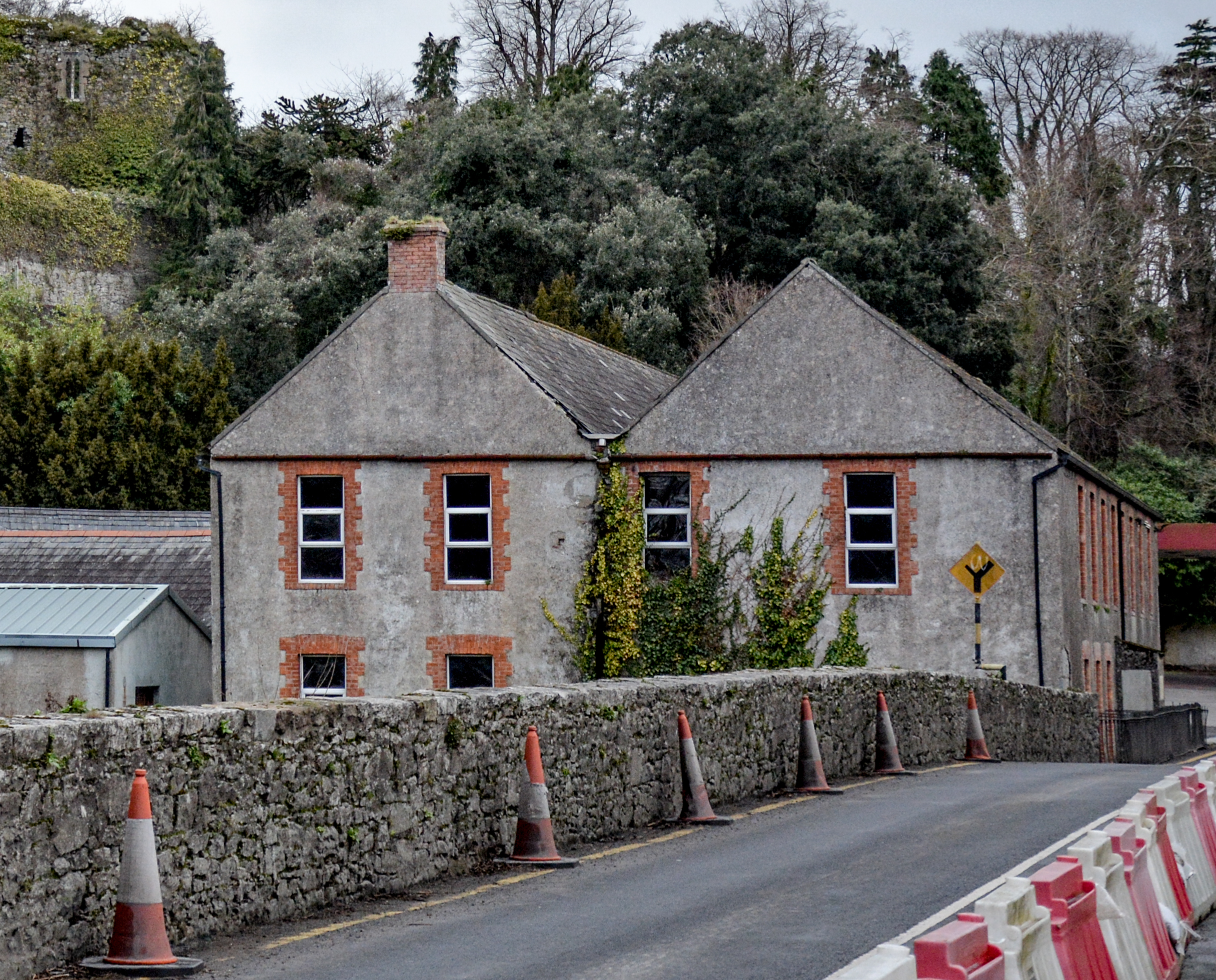 Picture of one of the Ardfinnan Woollen Mill's buildings